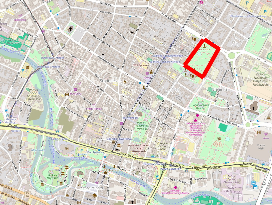 Location on Bydgoszcz map